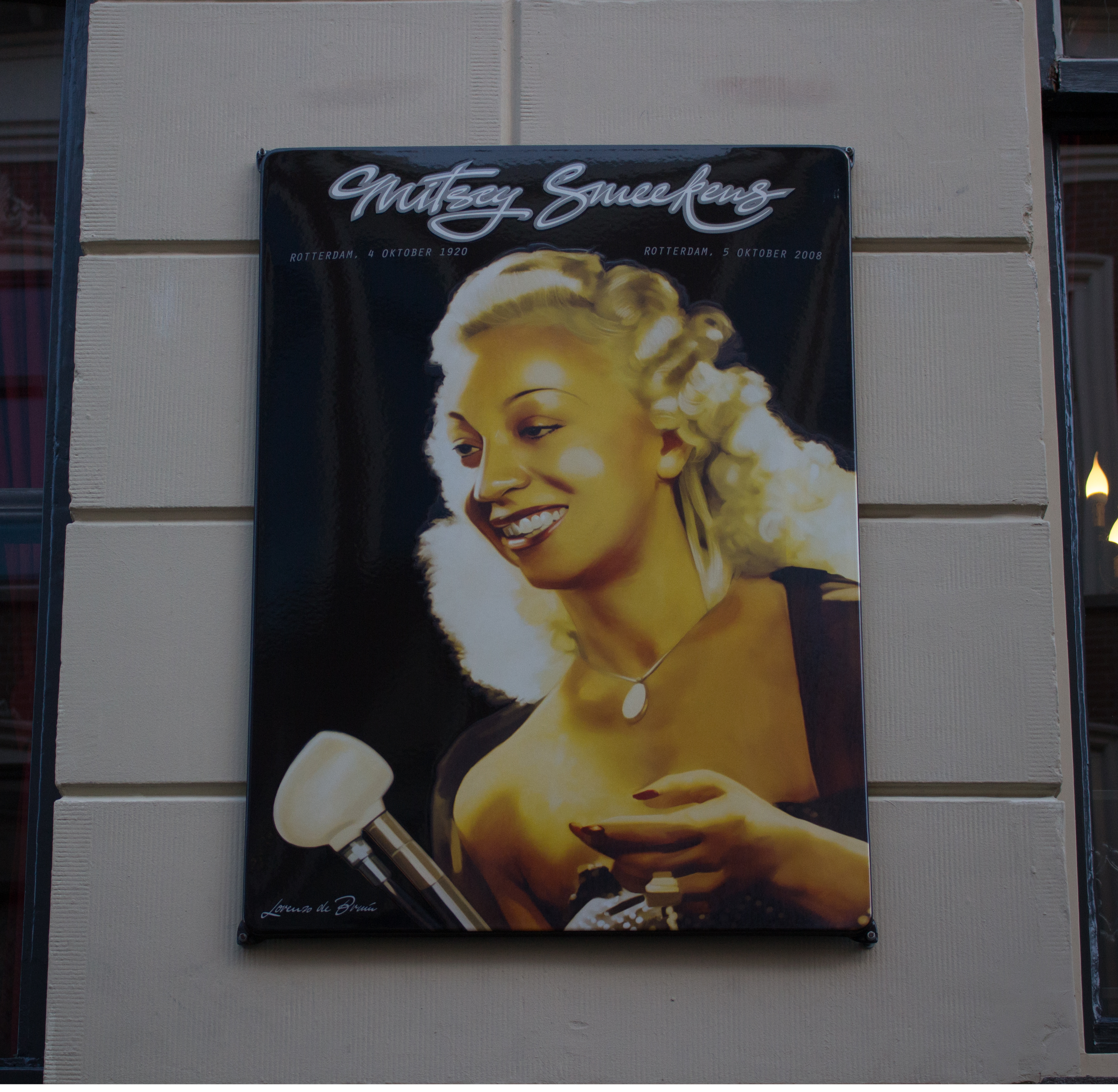 Mitsey Smeekens by Lorens de Bruin